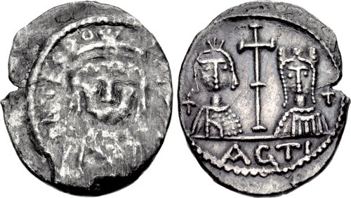 Theodosius, with Maurice Tiberius and Constantia. 590-602. AR Half Siliqua. Light weight issue. Carthage mint.Helmeted, draped, and cuirassed bust of Theodosius facing / Crowned and draped busts of Maurice and Constantia facing; long cross potent between; small cross to left and right; AGTI in exergue.